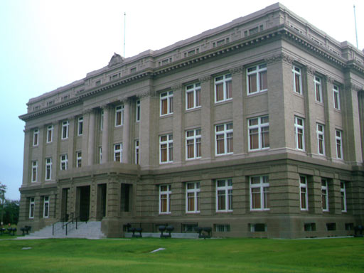 This is a picture of the 1912 Courthouse now known as the Oscar Dancy Courthouse in Brownsville, Texas, United States. It served as Cameron County Courthouse until approximately 1980, when a new county courthouse was dedicated on Harrison Street. In October 2006, the Dancy Building was re-dedicated as the Cameron County Courthouse. It currently houses the Commissioners' Court chamber, and offices for various county officials.